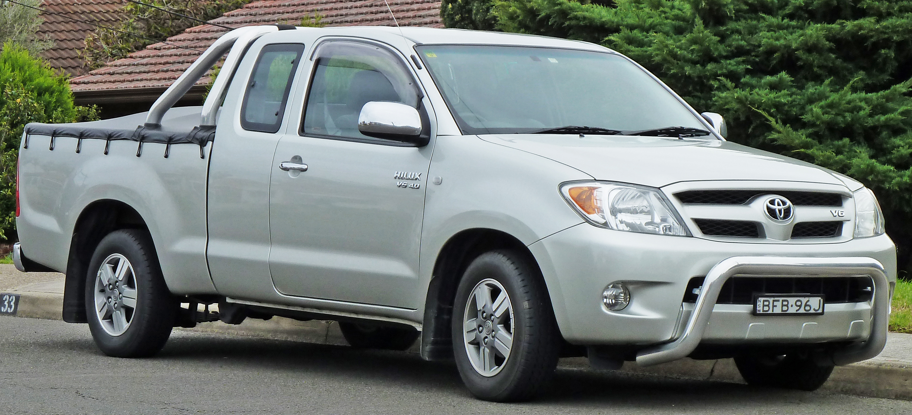 2005–2008 Toyota HiLux (GGN15R) SR5 Xtra Cab 2-door utility. Photographed in Woolooware, New South Wales, Australia.